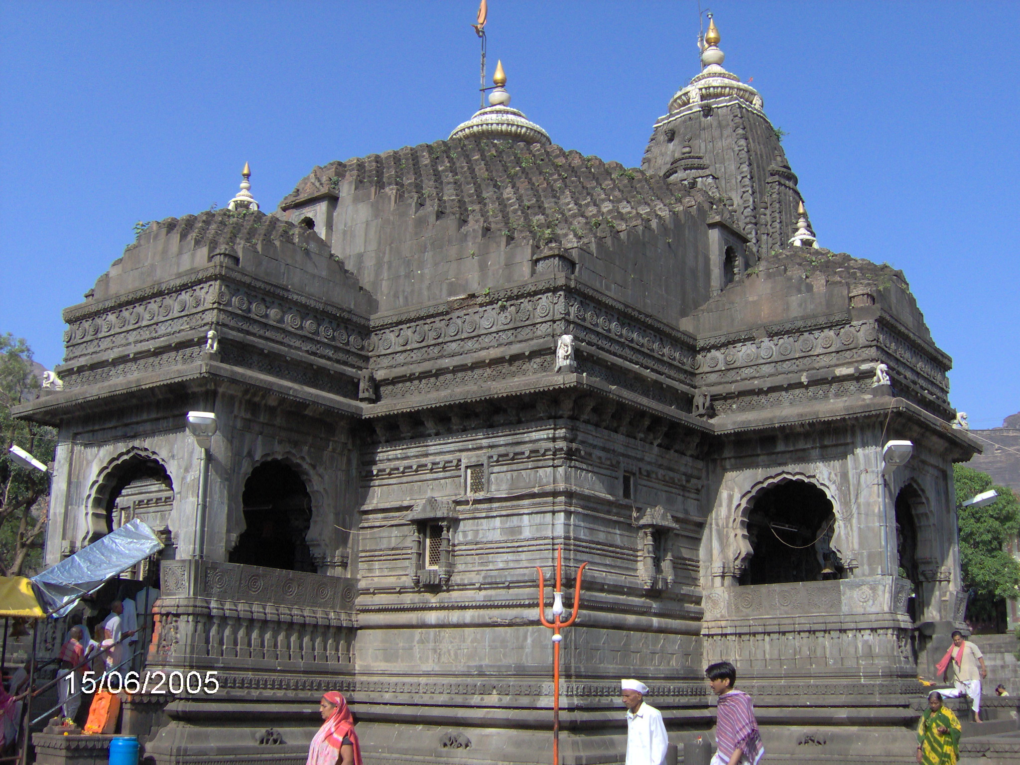 Trimbakeshwar Temple at Nasik, Maharashtra India